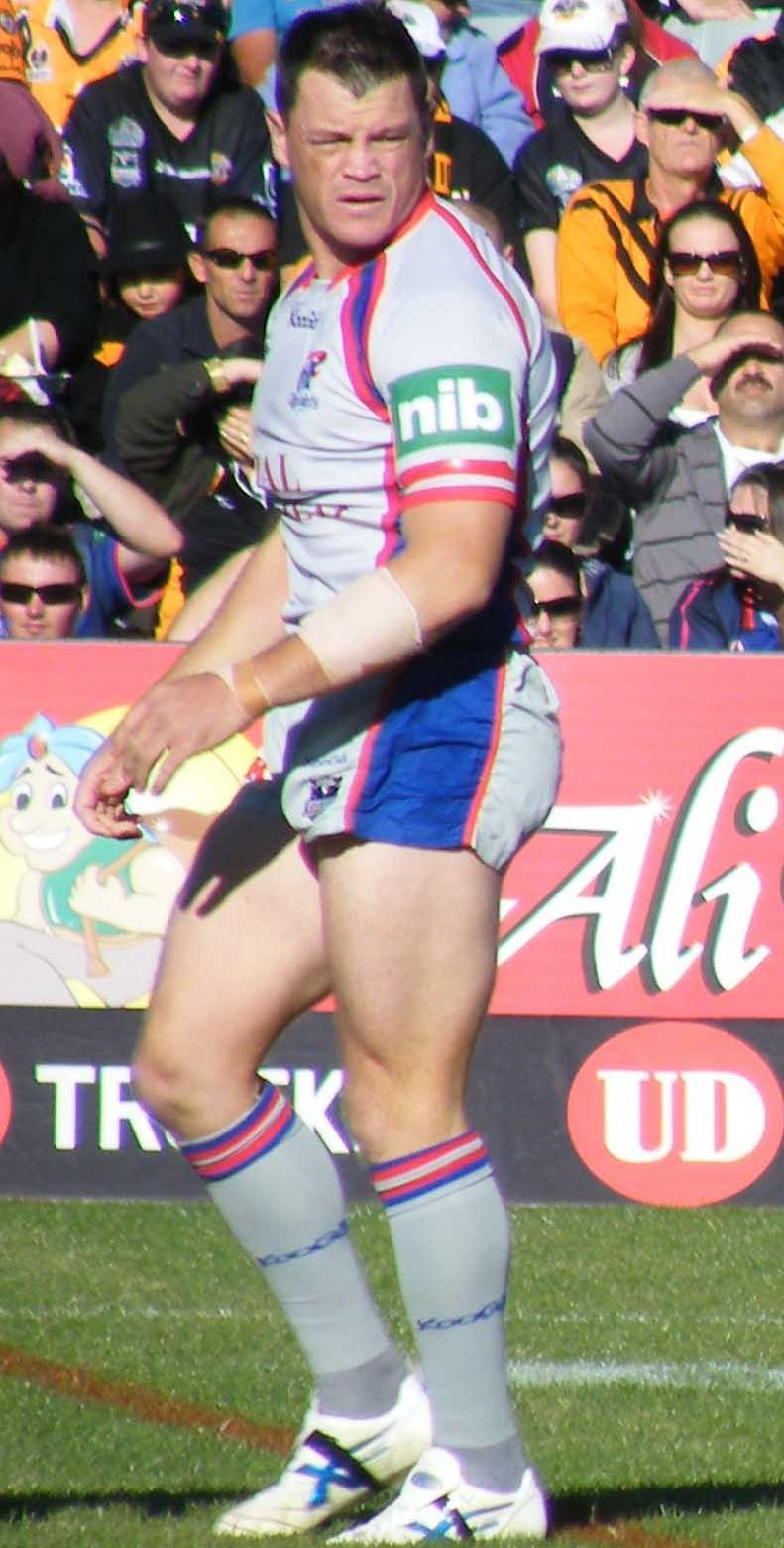 Isaac De Gois of the Newcastle Knights